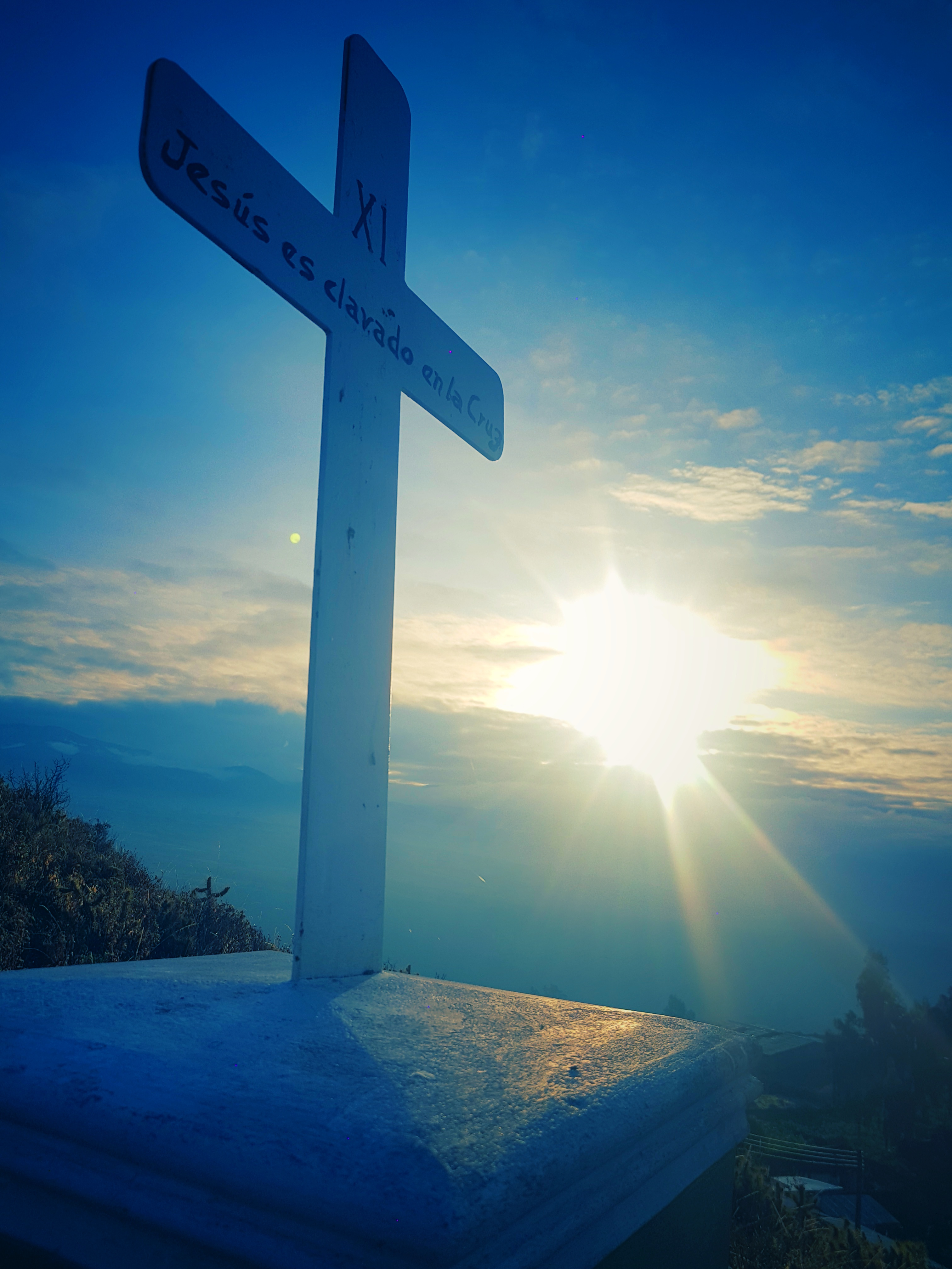 Sunrise in the town of Candarave from the Via Crucis